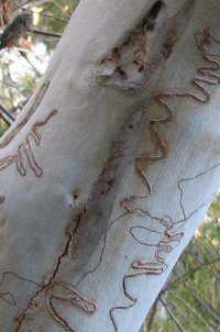 Closeup of the bark of a Eucalyptus haemastoma (Scribbly Gum).